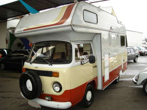 Picture of the Brazilian version of the Vw Type 2, Karmann Safari.